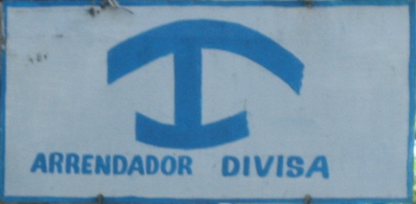 official sign for rooms to rent for divisas (casa particular) in Cuba